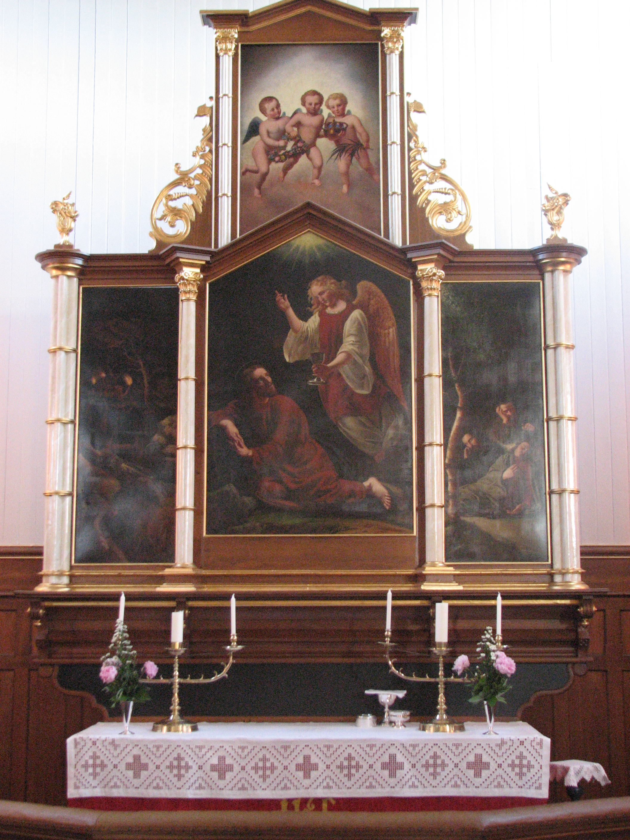 Vågan Church, Lofoten Cathedral in Kabelvåg, Norway. Altar piece from 1869/70 by Frederik Nicolai Jensen (1818-1870), vicar, painter and member of Stortinget. Triptyk with scenes fron Getsemane. There is a fourth painting at the top with angels.